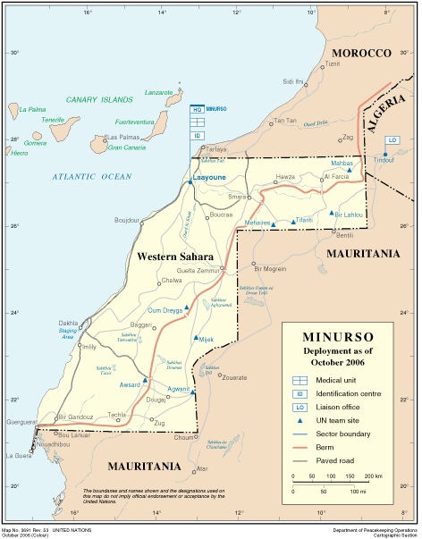 Map of the MINURSO misson